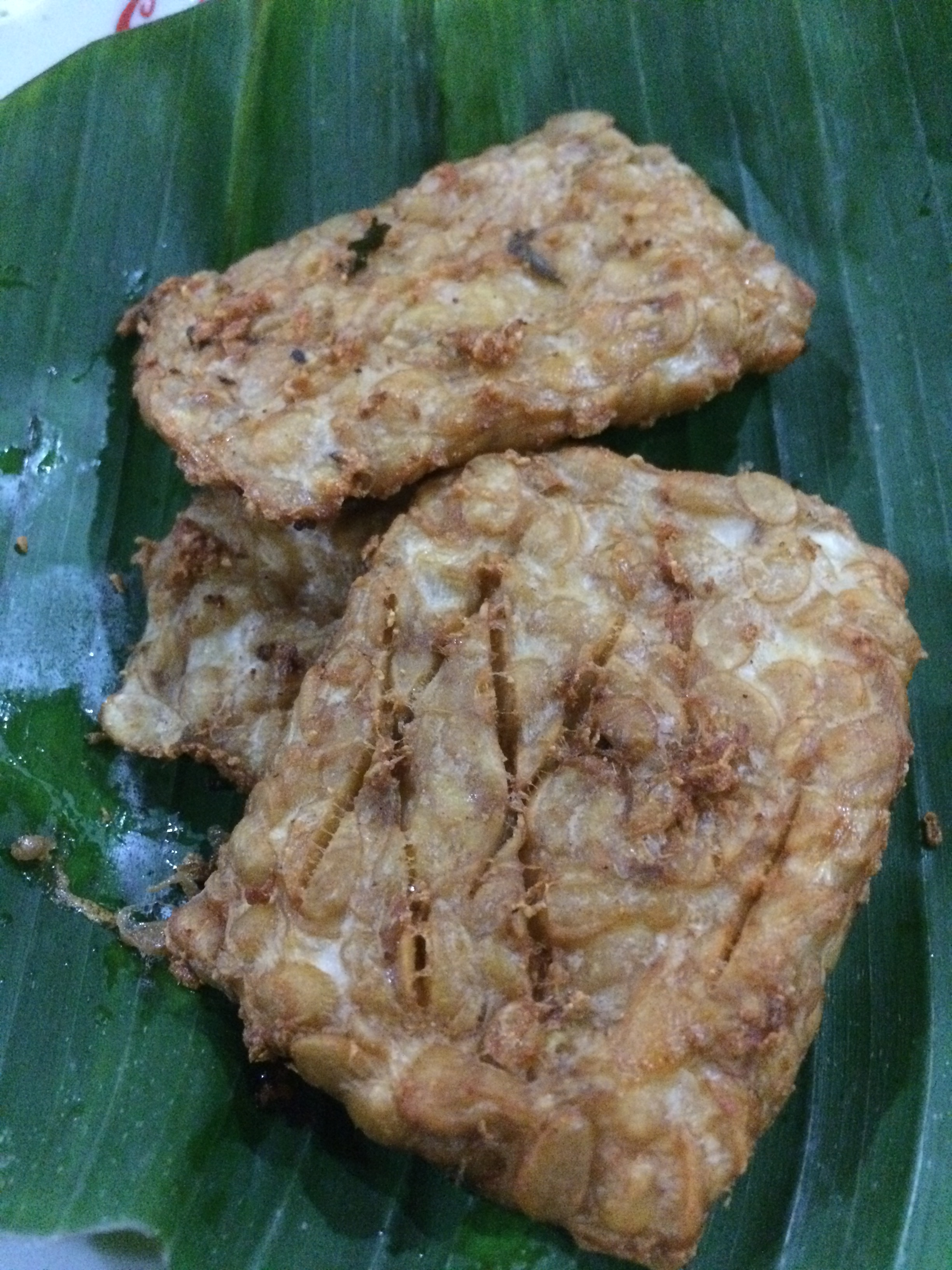 A photo of a cooked tempe mendoan